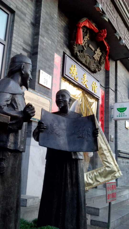 都一处烧卖 前门大街店 duyichu shaomai HQ